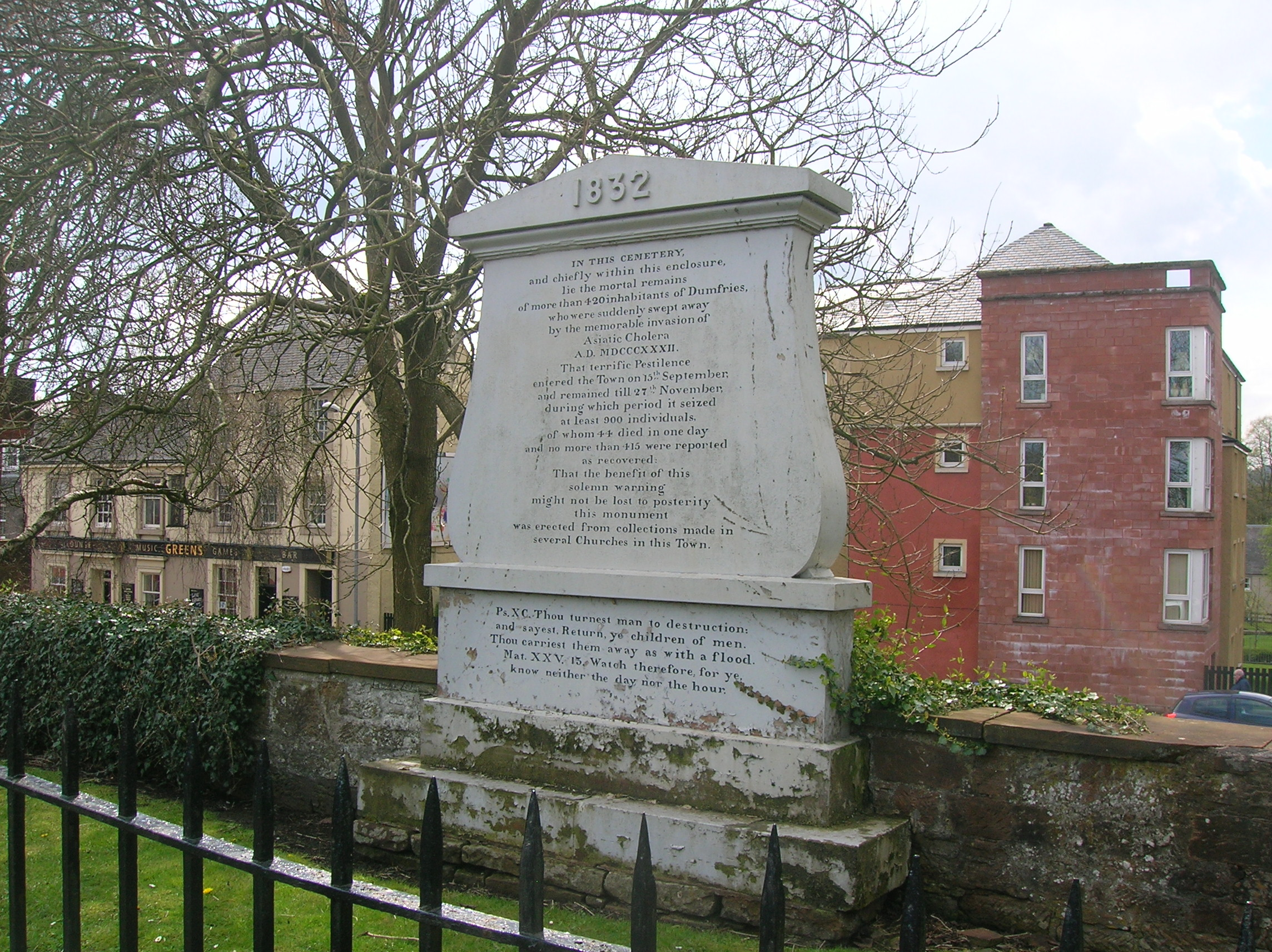 Cholera Pit site, St Michael's churchyard, Dumfries, Scotland